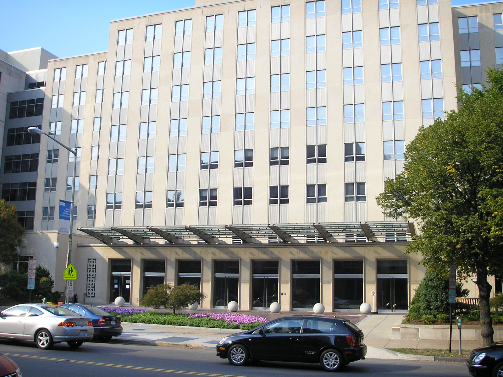 The Brookings Institution in Washington, D.C..